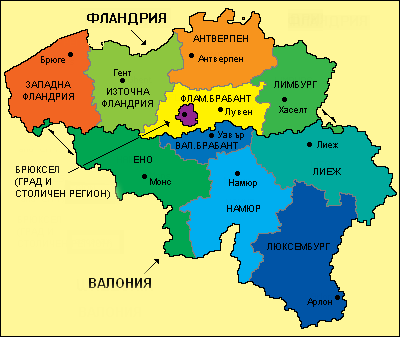 Map of Belgian regions and provinces. Translation of Image:Belgium RegProv.png by User:Dhum Dhum.